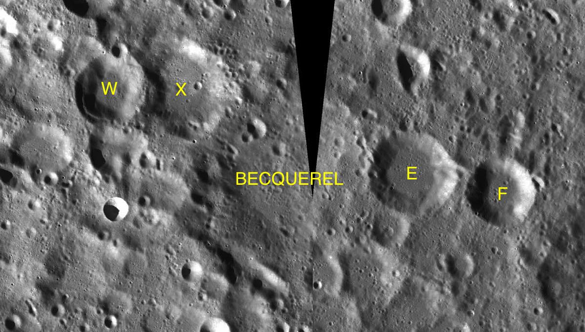 Parts of the charts LAC-30, LAC-31 used for the presentation.